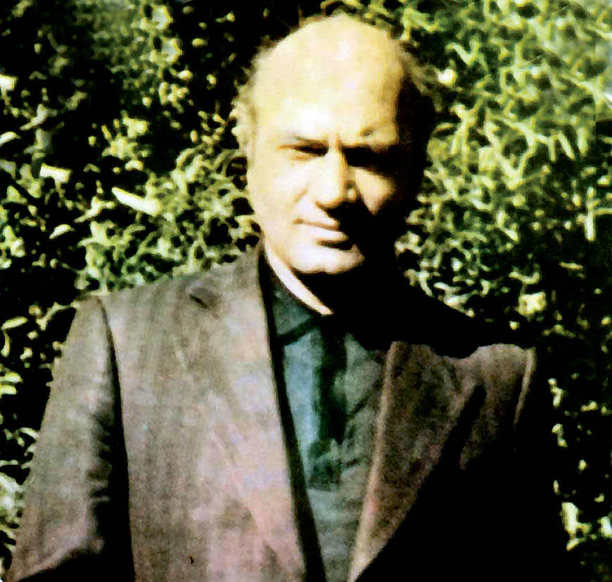 Dr Ali Shariati